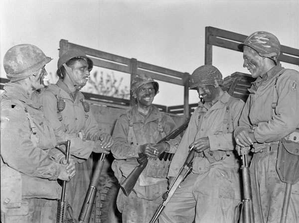 Forcemen of 5-2, First Special Service Force, preparing to go on an evening patrol in the Anzio beachhead, Operation Shingle, Italy, ca. 20-27 April 1944.